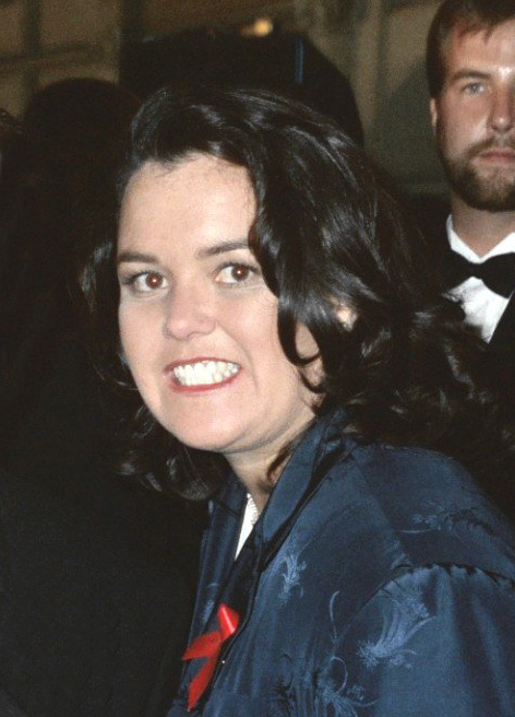 1995 Emmy Awards NOTE: Permission granted to copy, publish, broadcast or post any of my photos, but please credit "photo by Alan Light" if you can. Thanks. Scanned from the original 35MM film negative.